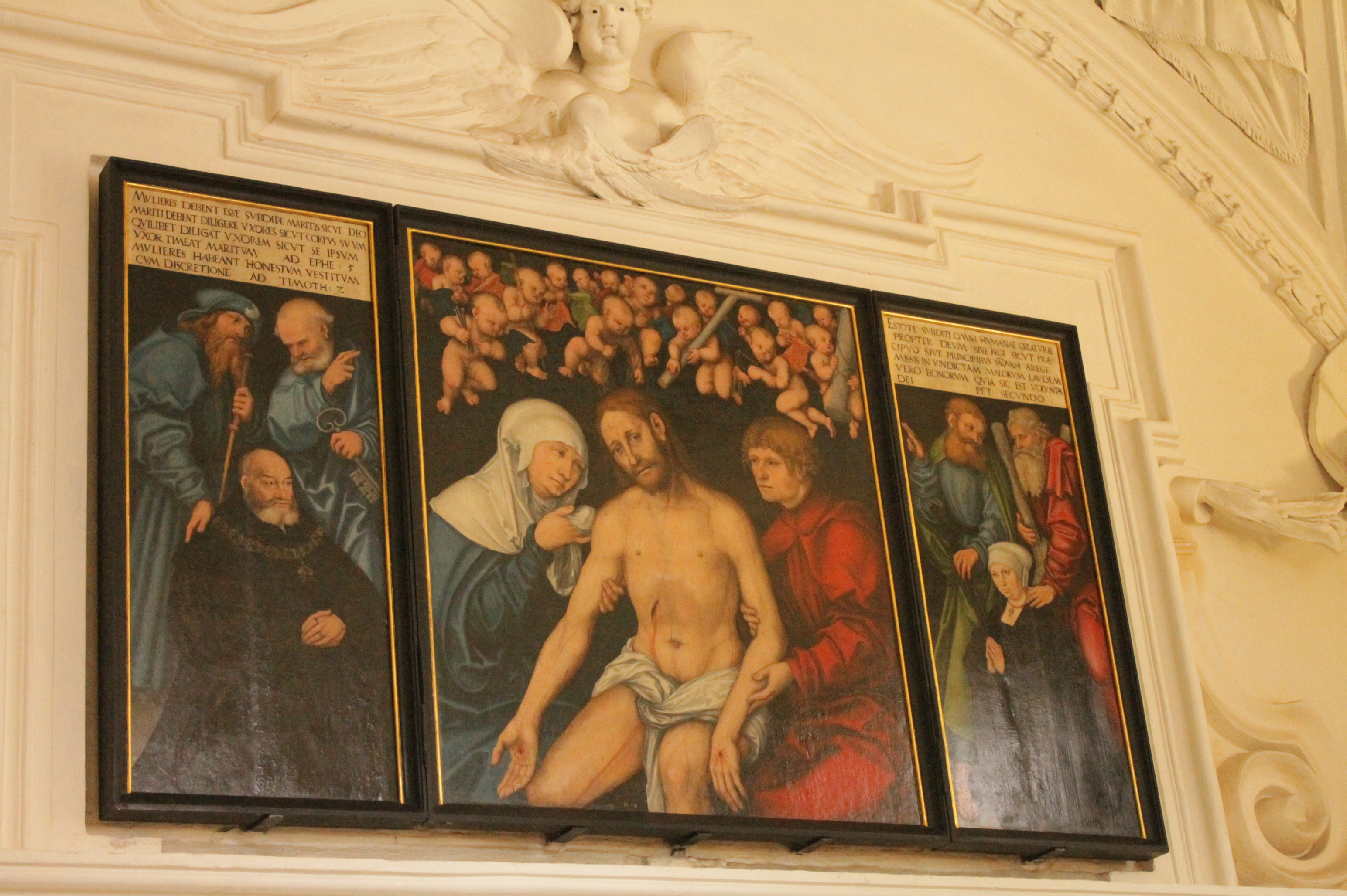 The Cranach altarpiece in the Georgskapelle in Meissen Cathedral